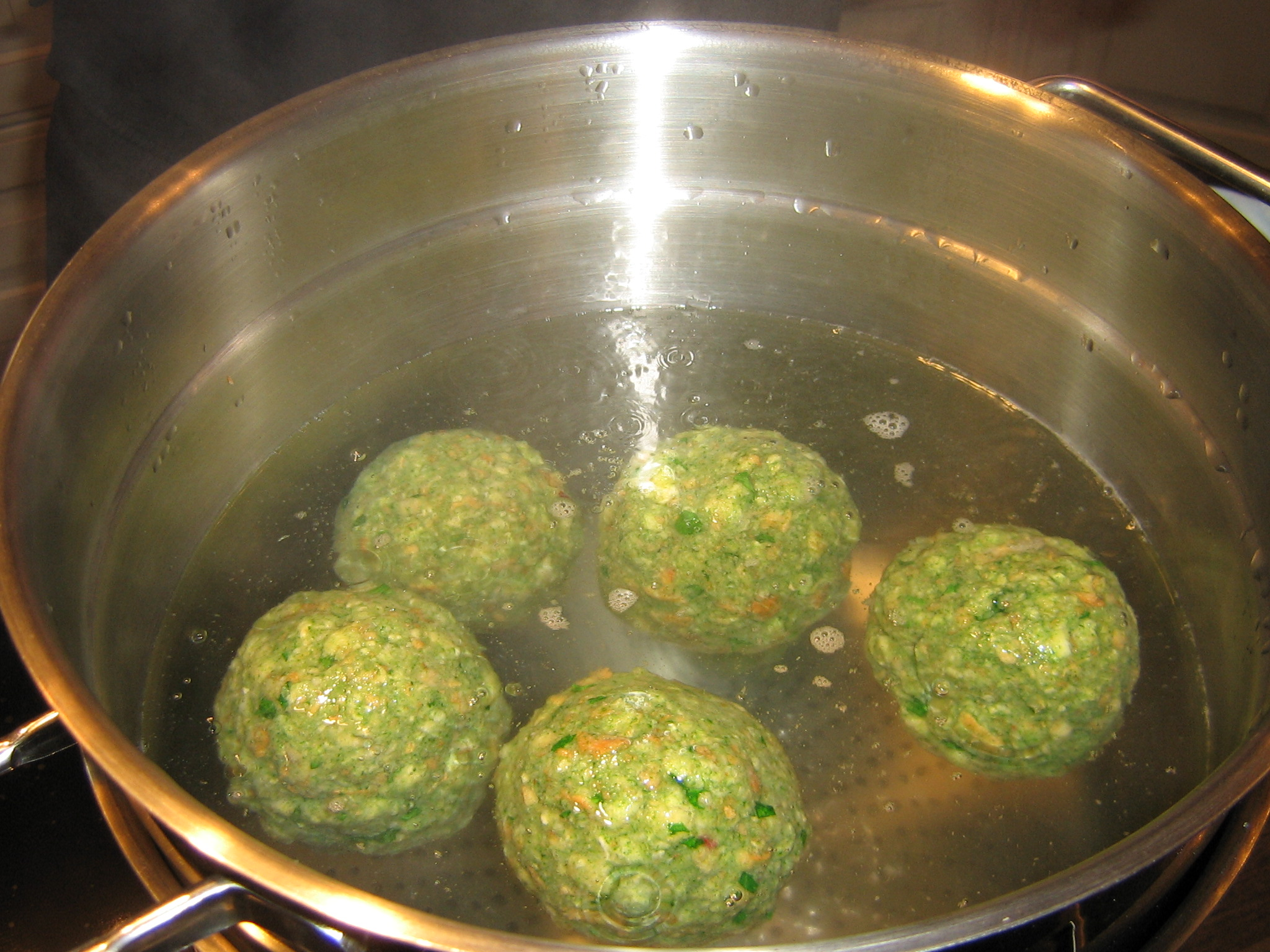 Five spinach dumplings